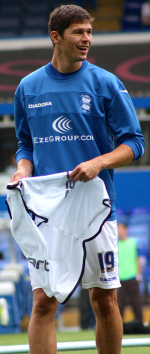 Nikola Zigic photo vs Antwerp